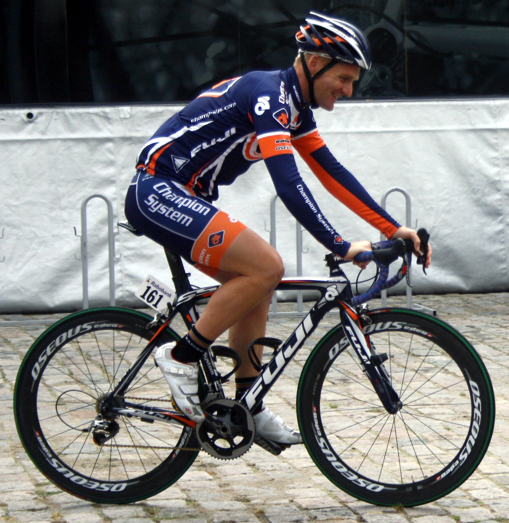 Bobbie Traksel before the start of stage 2 of the World Ports Classic 2013